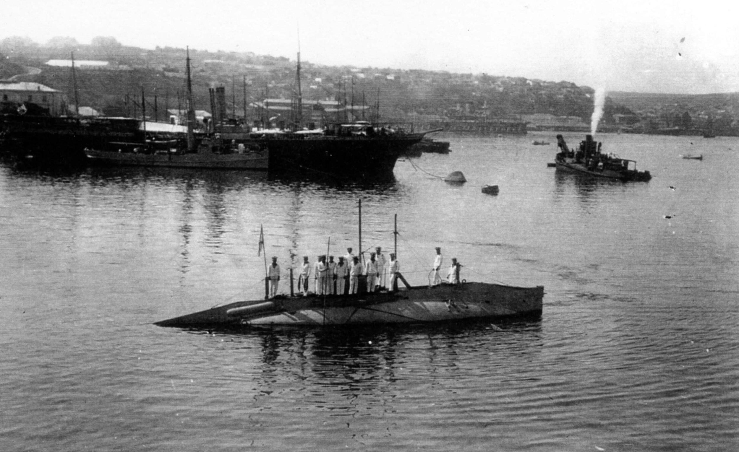 The Imperial Russian submarine «Losos'» in Sevastopol, 1912.